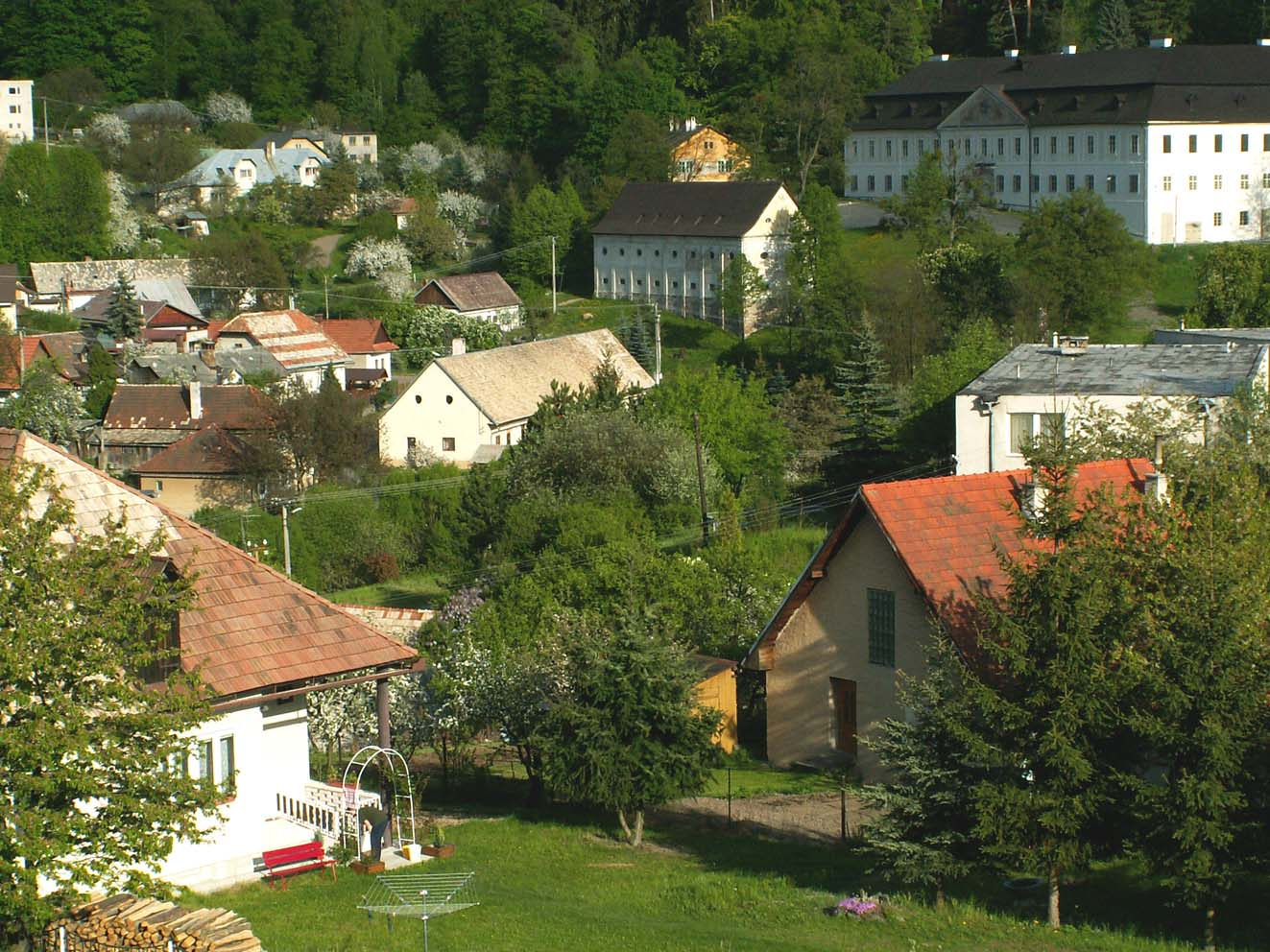 Svaty_anton2.JPG